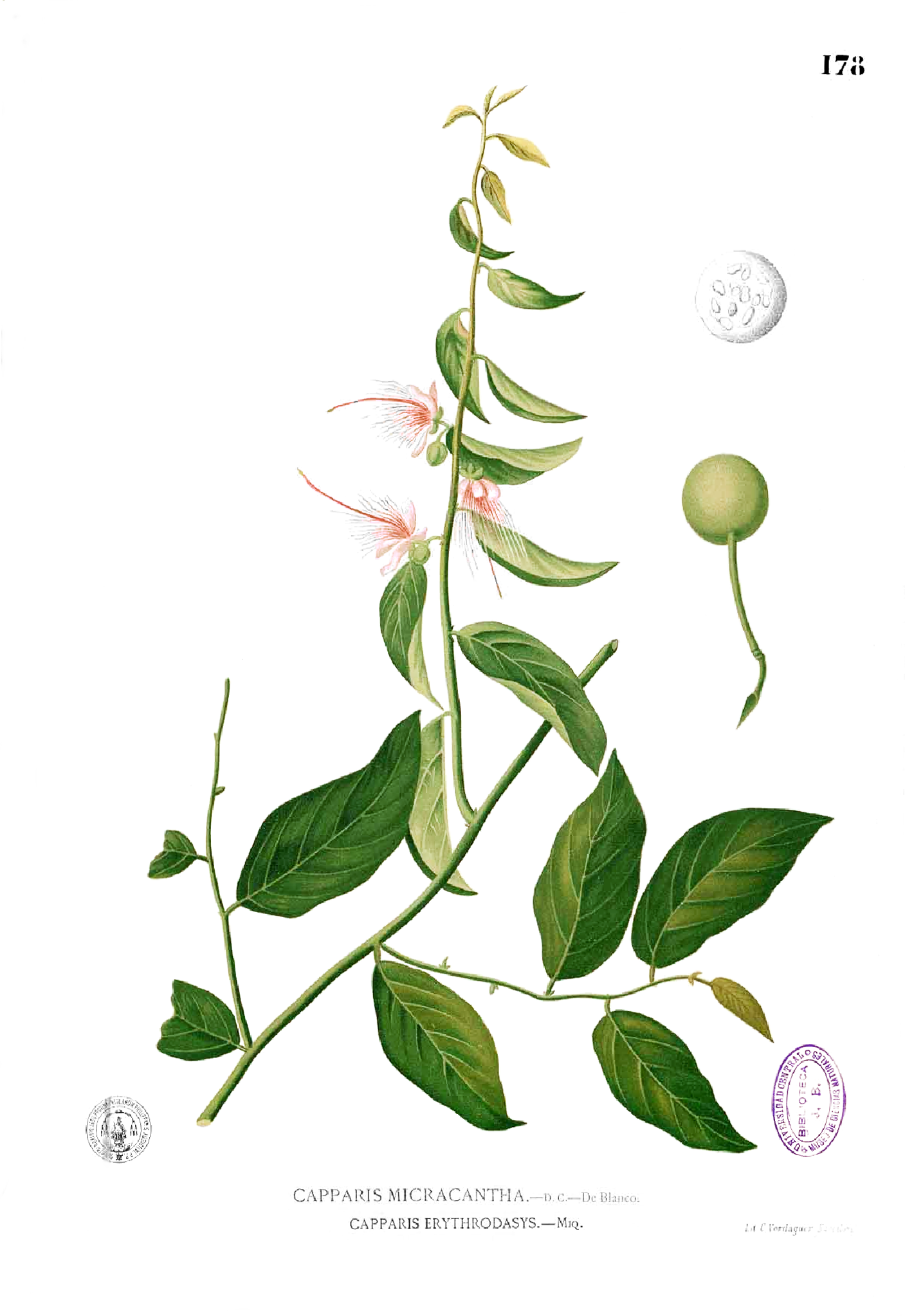 Plate from book Capparis micracantha